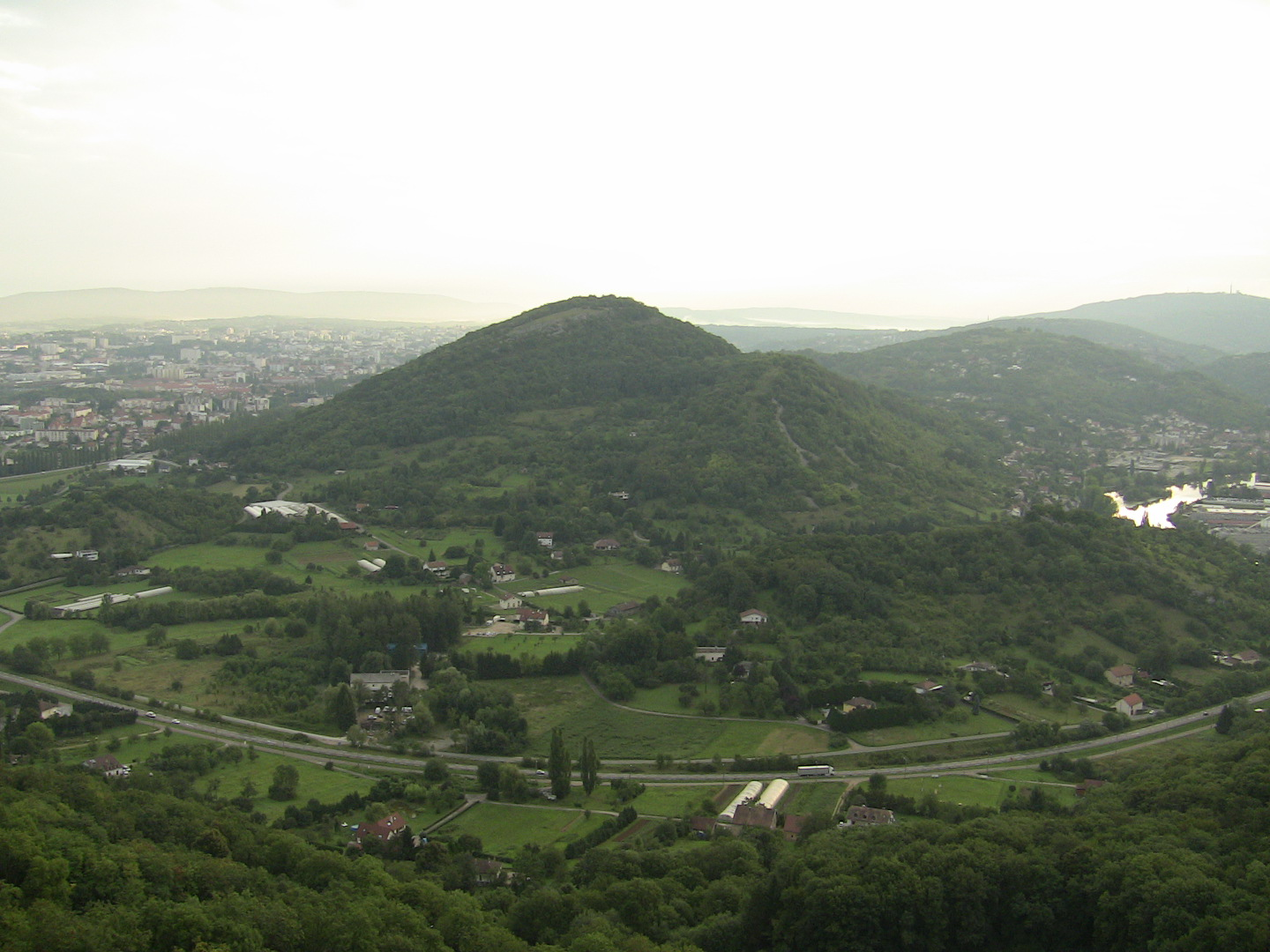 Hill of Rosemont, located in Besançon (France)